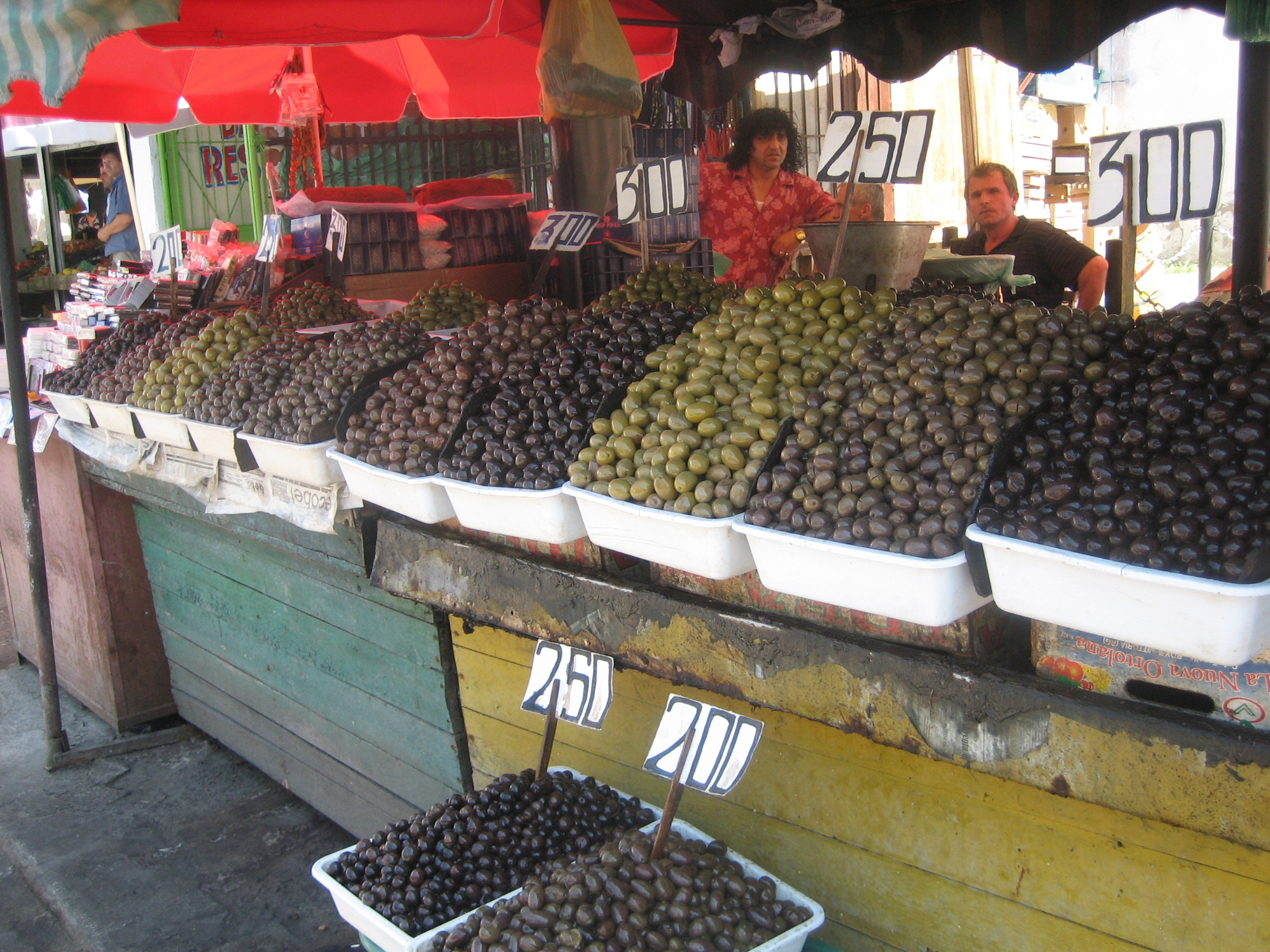 Olive stall at Sheshi Avni Rustemi in Tirana, Albania